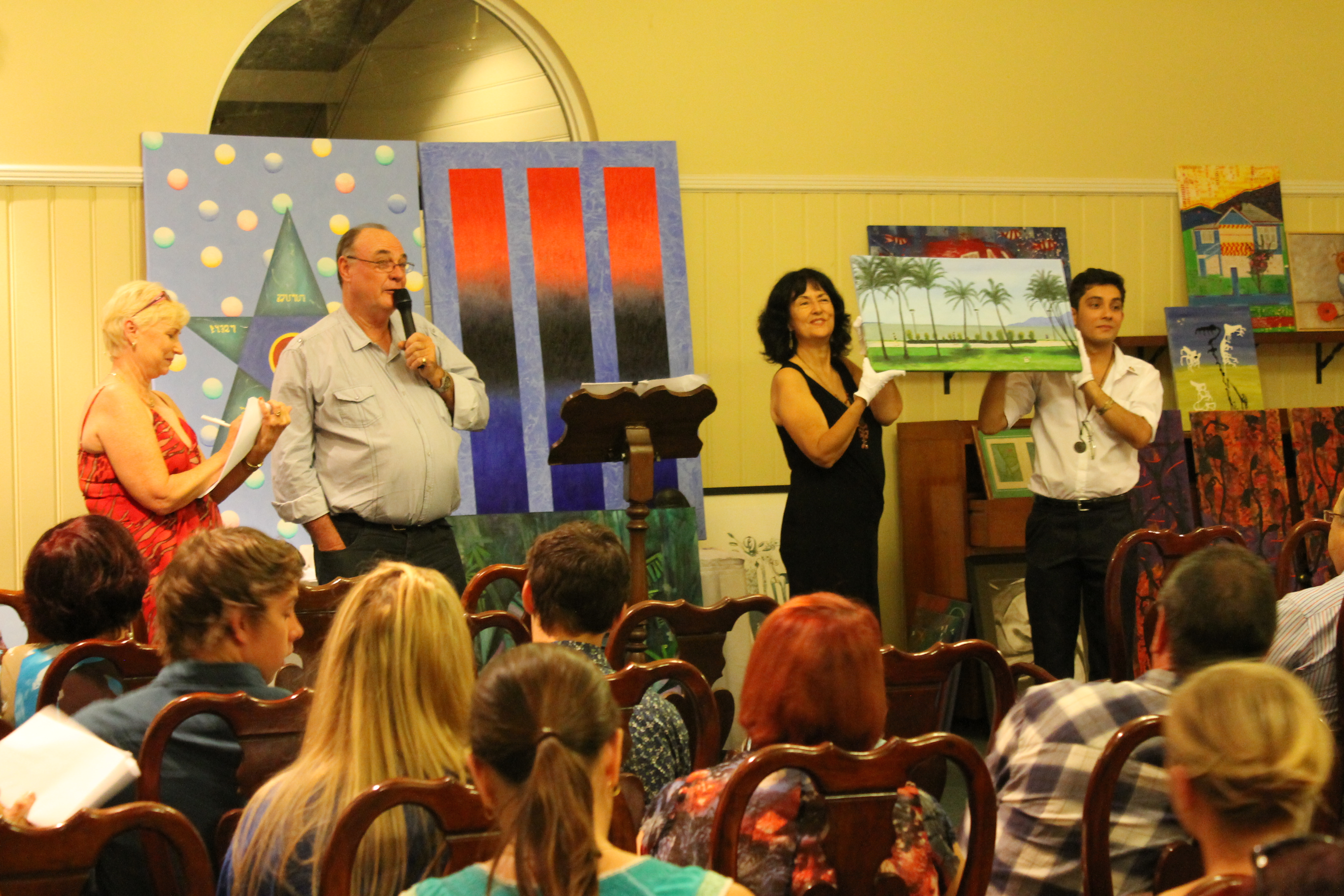 Jack Wilkie-Jans photoed at the Declan Crouch Fund Charity Art Auction in 2012 alongside auctioneer The Hon. Warren Entsch MP, the CEO of the Dr. Edward Koch Foundation Ms. Dulcie Bird and the Declan Crouch Fund's Founding President Ms. Ruth Crouch.